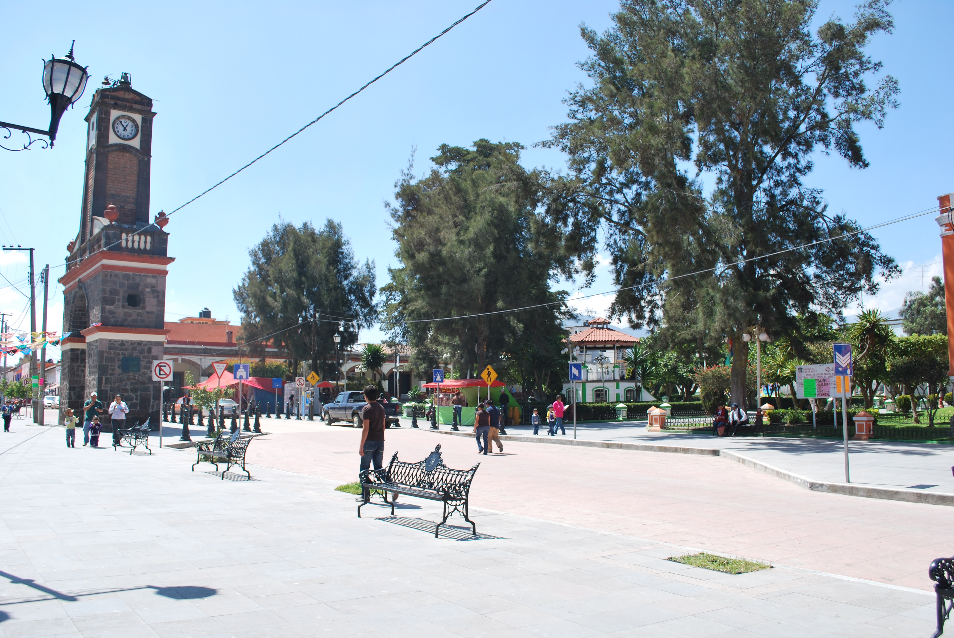 View of the clock tower and plaza in Calimaya, State of Mexico